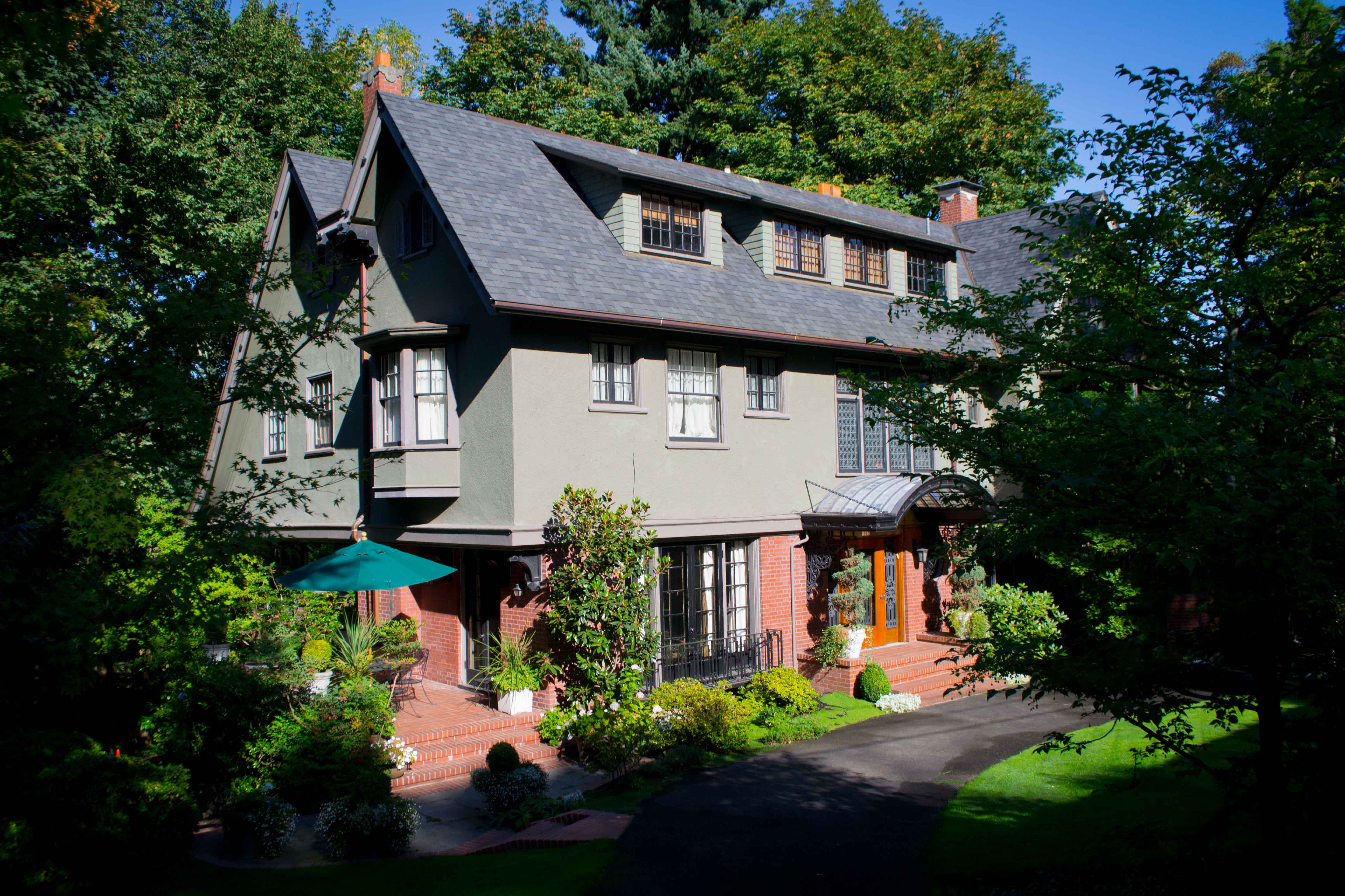 National Register of Historic Places listing in Portland, Oregon